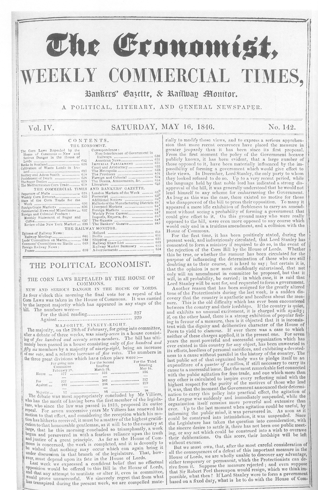 This is the front page of The Economist, on May 16, 1846. I found the image in The Pursuit of Reason, The Economist 1843-1993, by Ruth Dudley Edwards.